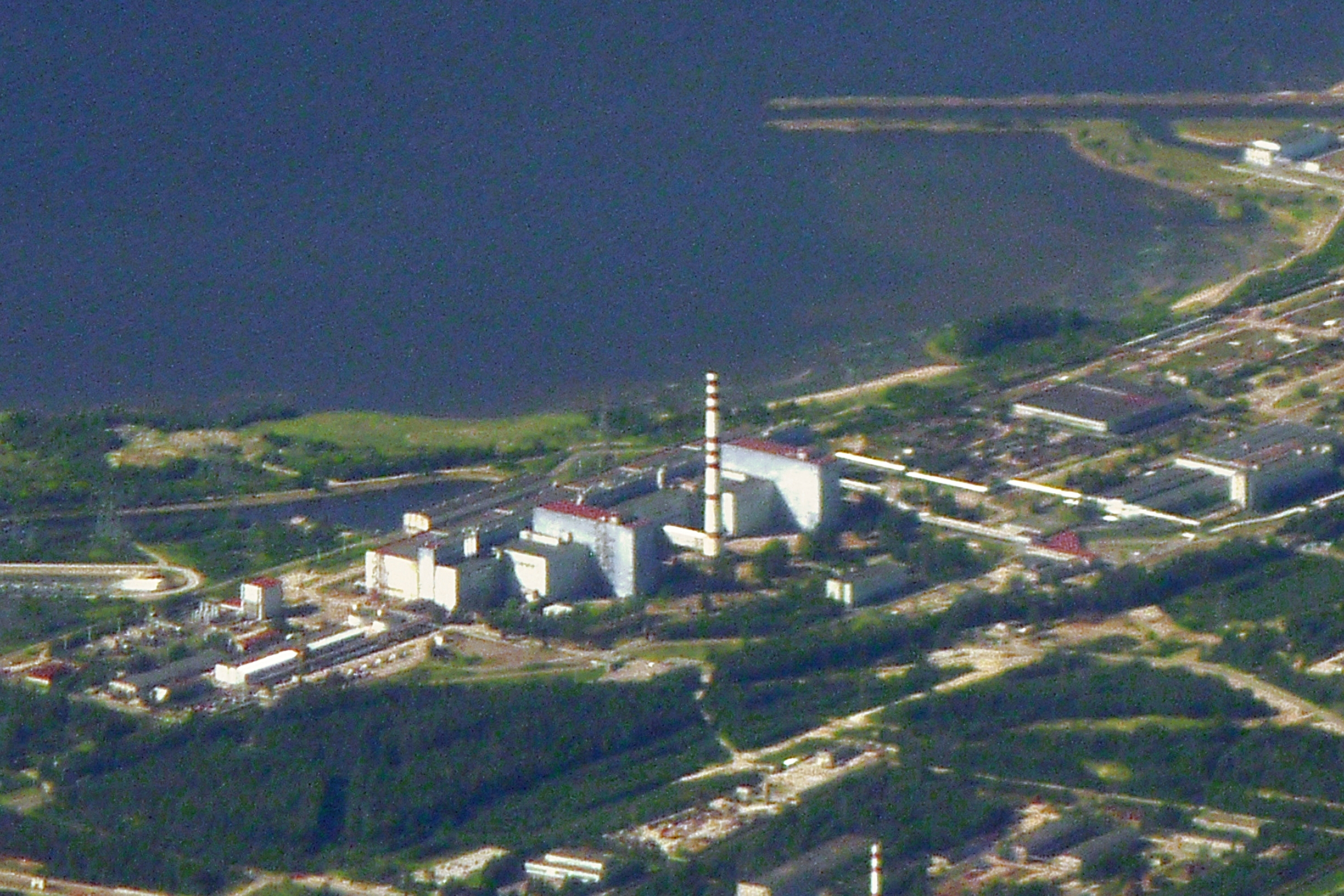 Site of the Nuclear Power Plant Leningrad, unit three (left) and four (right); photo taken from an airplane.